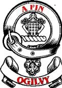 Crest of the Scottish clan, Clan Ogilvy